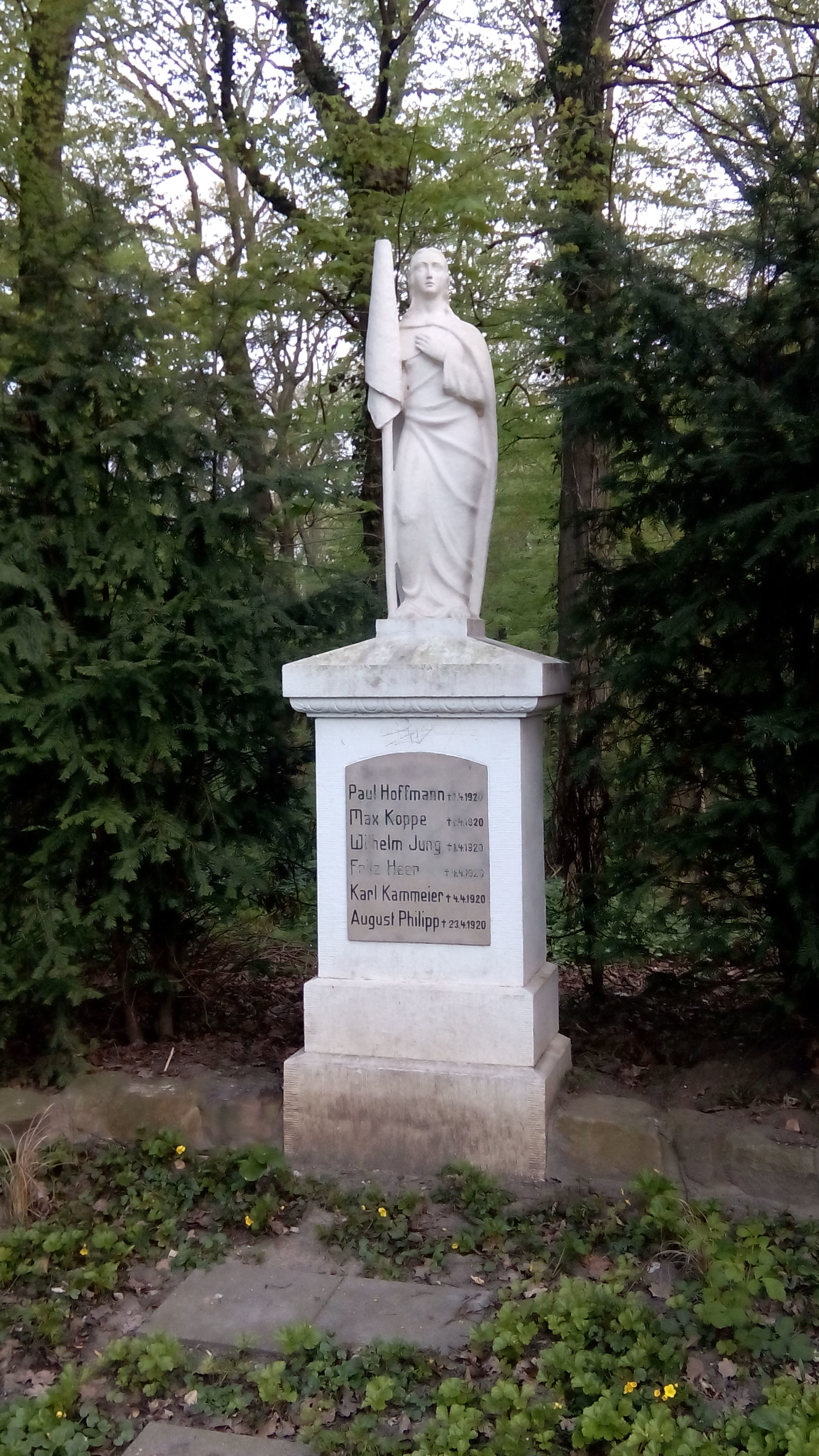 Statue for fallen or executed fighters of Ruhr Red Army, Cemetary Bergkamen Germany